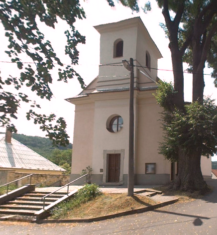 Rozhraní, Svitavy District, Czech Republic.